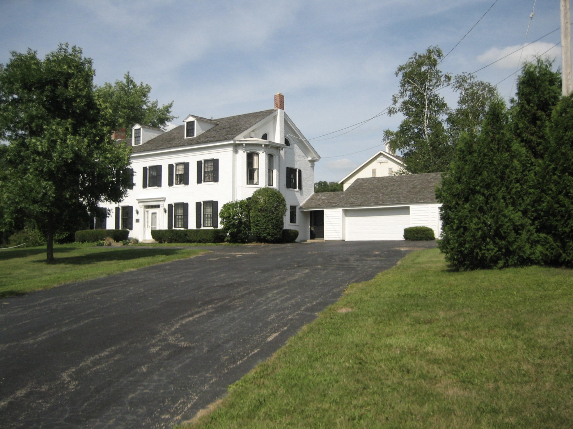 John H. Addams Homestead, Birthplace of Jane Addams (of Hull House fame), Cedarville, Illinois, USA. U.S. National Register of Historic Places